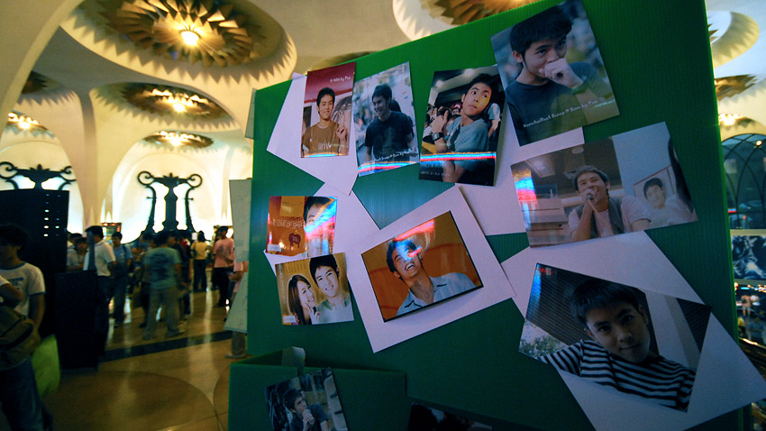 The special event of The Love of Siam at Scala ,Siam Square